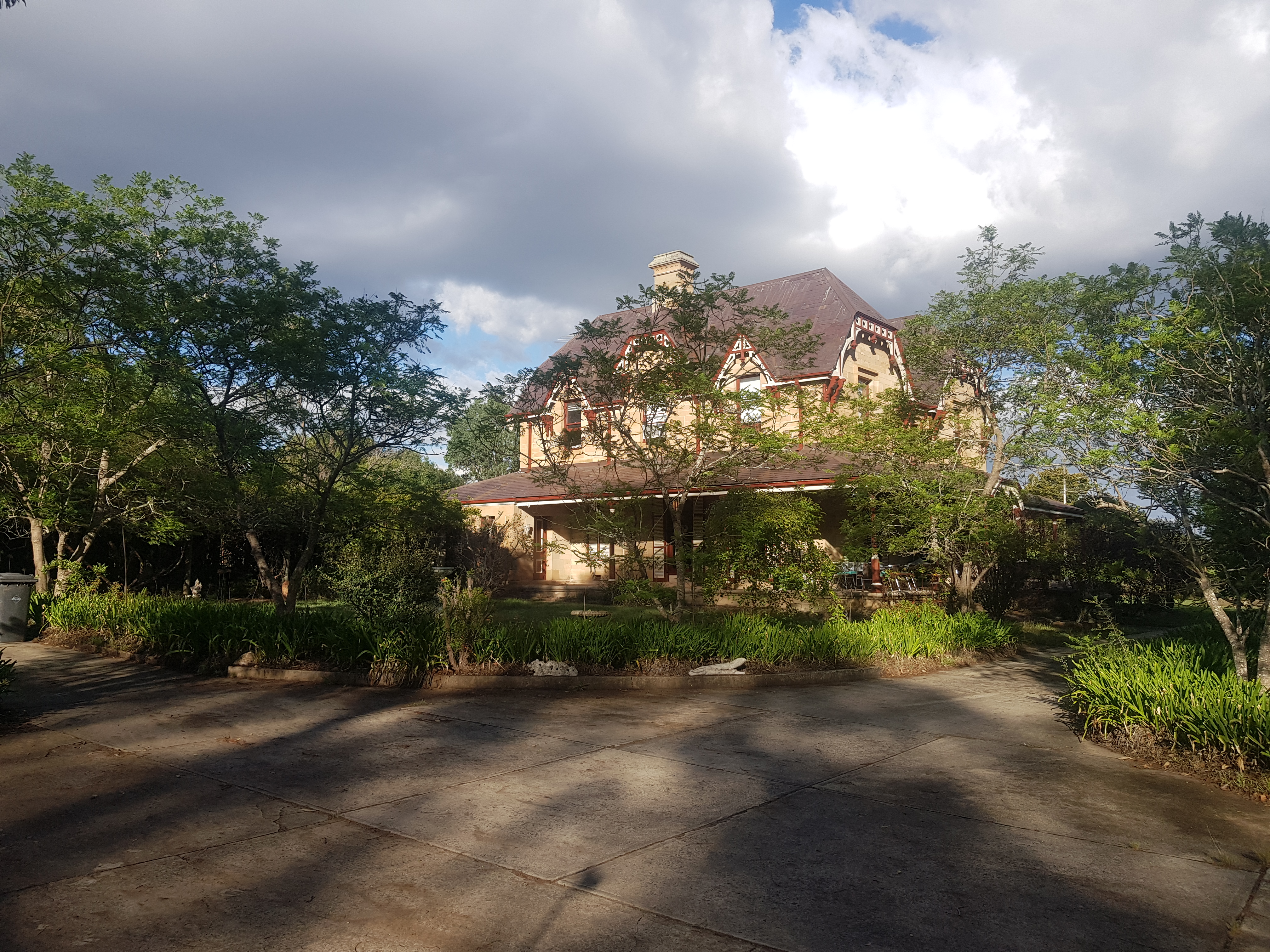 East side view of St Helens Park Mansion